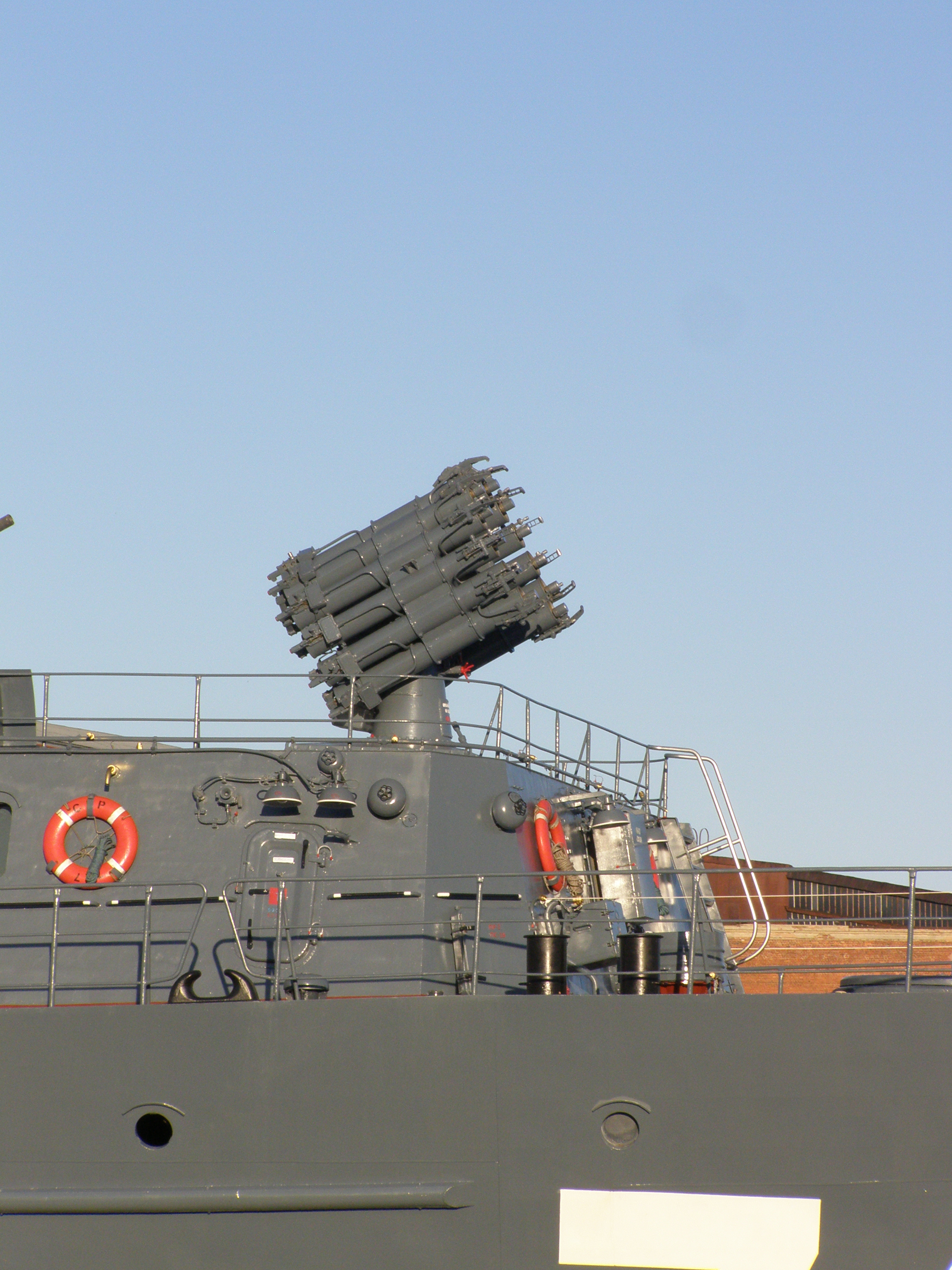 The Neustrashimy class frigate Yaroslav Mudry.